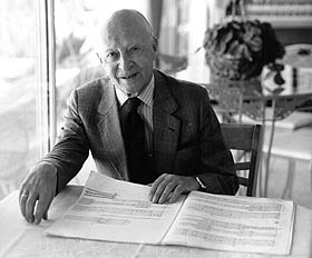 Photograph of Witold Lutosławski in his later years, by Betty Freeman (Los Angeles, 1993), courtesy of the Polish Music Center.